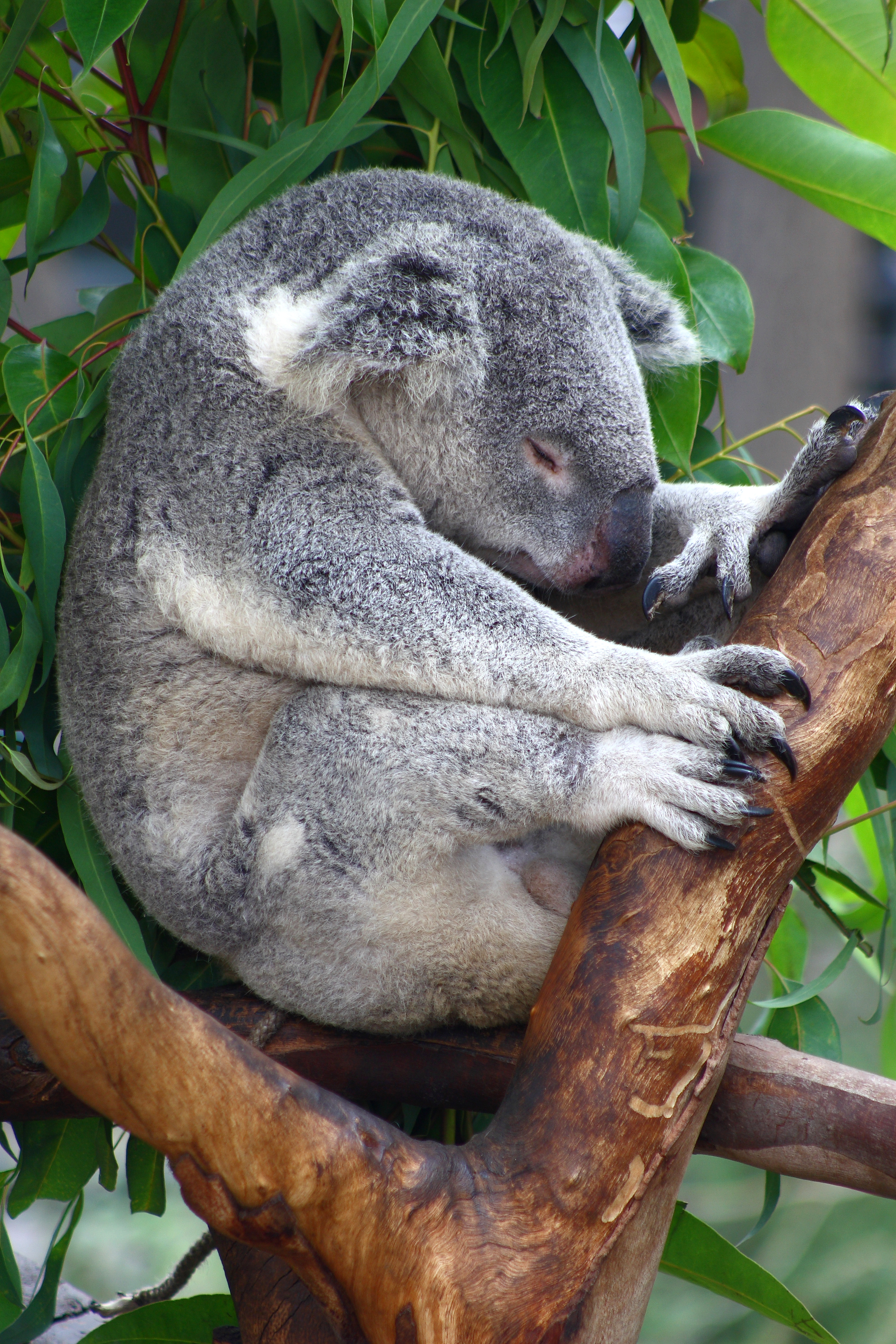 Koala sleeping on a tree top